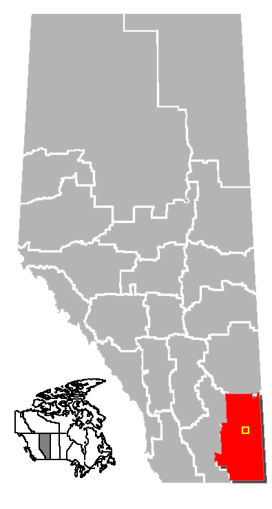 Location of Medicine Hat, Census Division No. 1, Albera